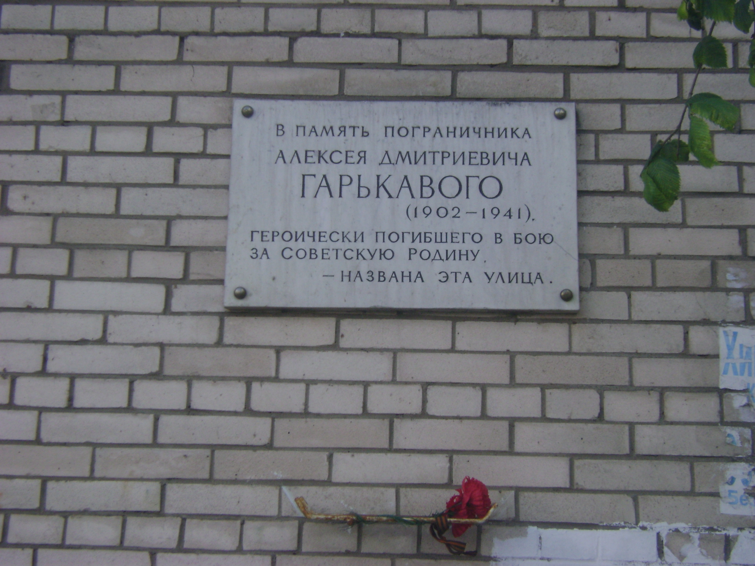 Pogranichnika Garkavogo memorial board